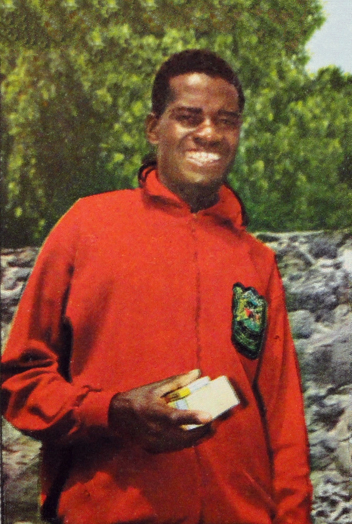 CAMPIONI DELLO SPORT 1969/70-n.34-TEMU (KENYA)-ATLETICA LEGG.-rec